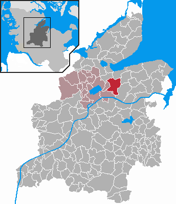 Locator maps of municipalities in Schleswig-Holstein - District Rendsburg-Eckernförde